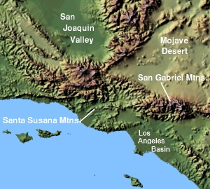 The central Transverse Ranges, identifying the Santa Susana Mountains and San Gabriel Mountains - in Southern California. The geological relief map also shows other Transverse mountain ranges, the Mojave Desert (in their rain shadow), the Los Angeles Basin, and the southern San Joaquin Valley. © 2004 Matthew Trump